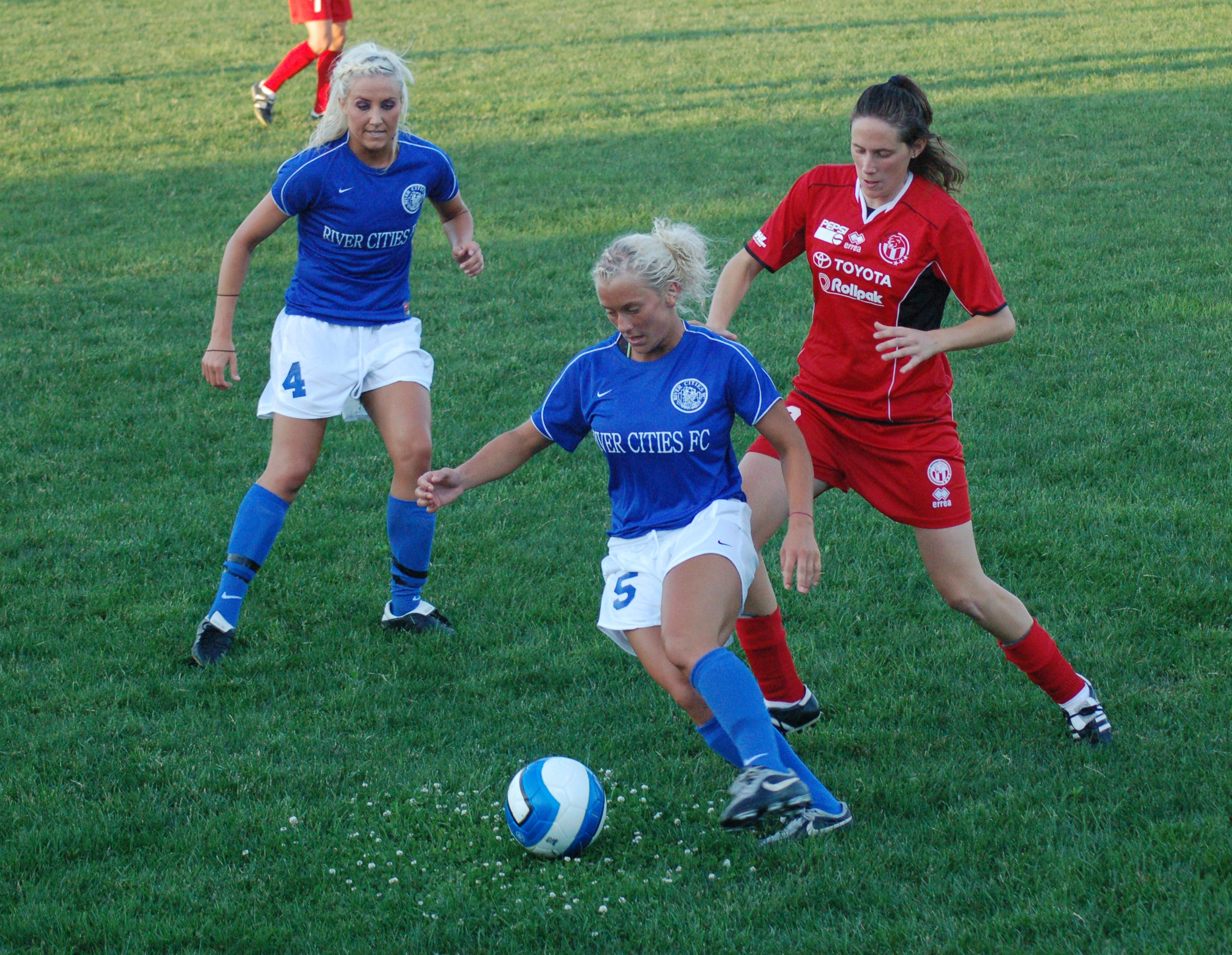 River Cities FC players